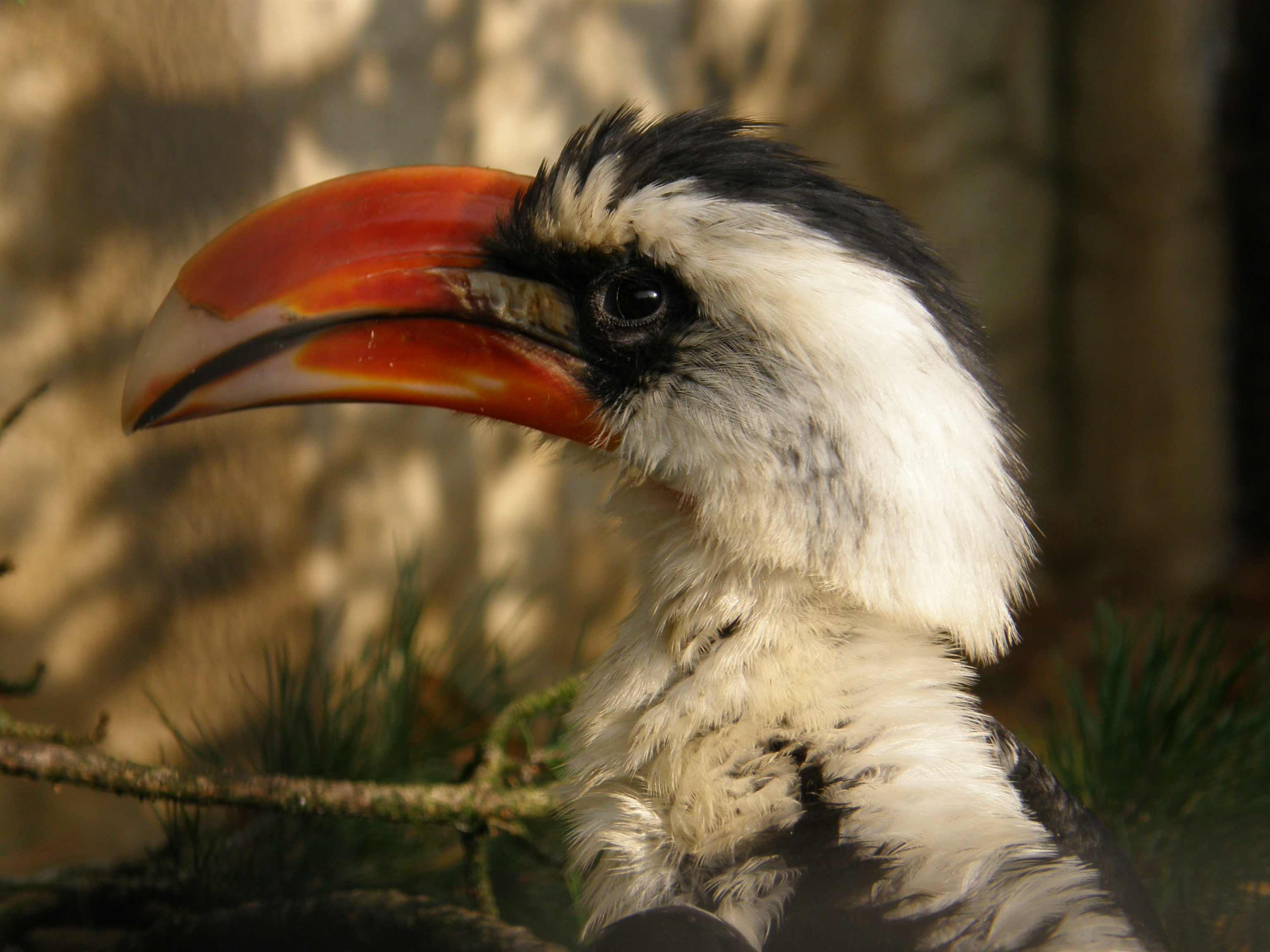 Von der Decken's Hornbill (Tockus deckeni). Male at Antwerp Zoo.